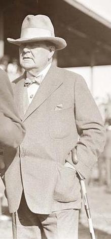 Photograph of James Buchanan Brady , better known as Diamond Jim Brady